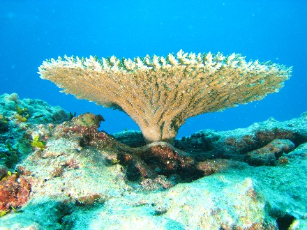 Table coral of genus Acropora (Acroporidae) at French Frigate Shoals, Northwestern Hawaiian Islands